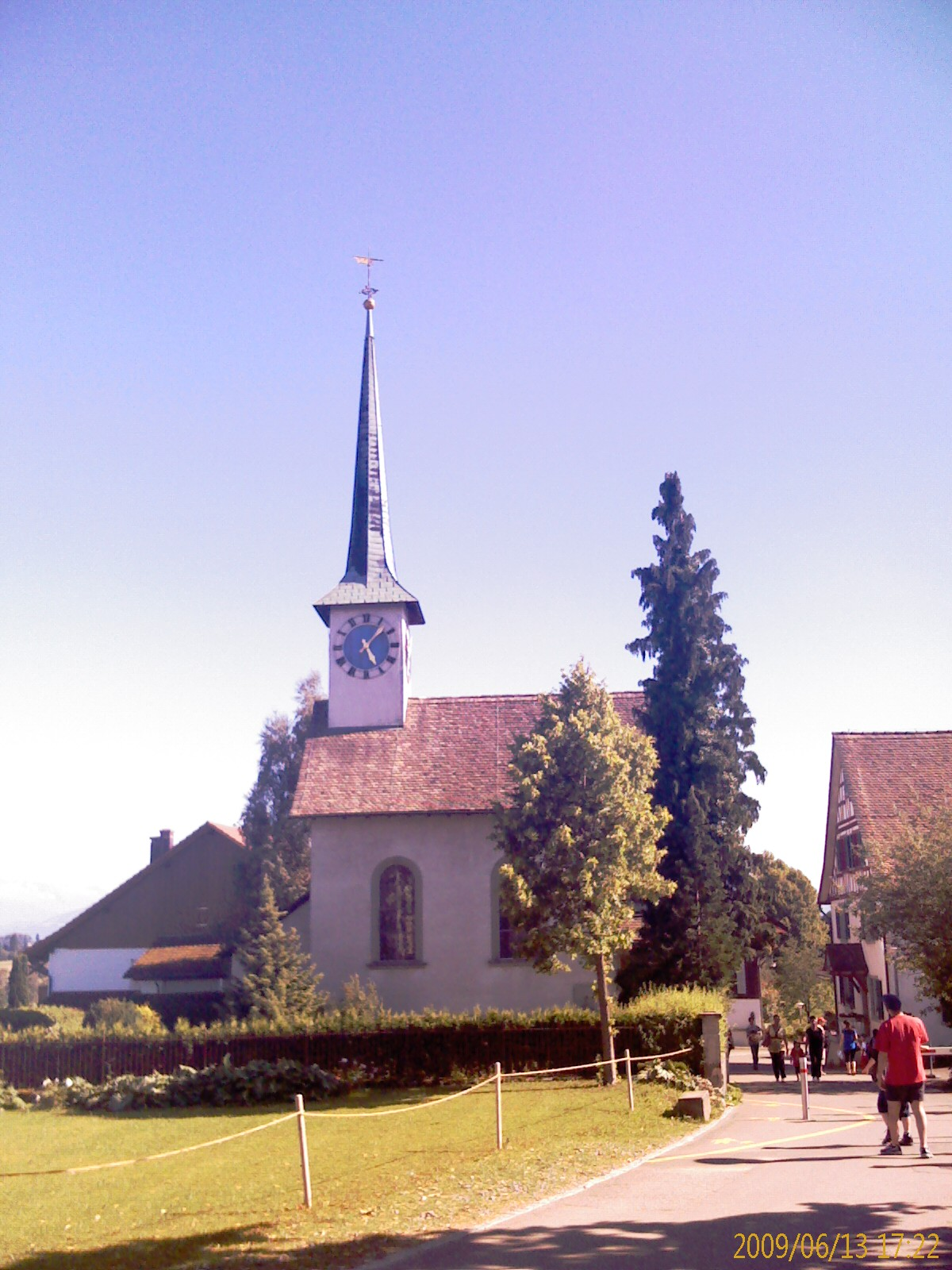 Church of Seegräben, canton of Zürich, SwitzerlandEsperanto: Preĝejo de Seegräben, Kantono Zuriko, Svislando